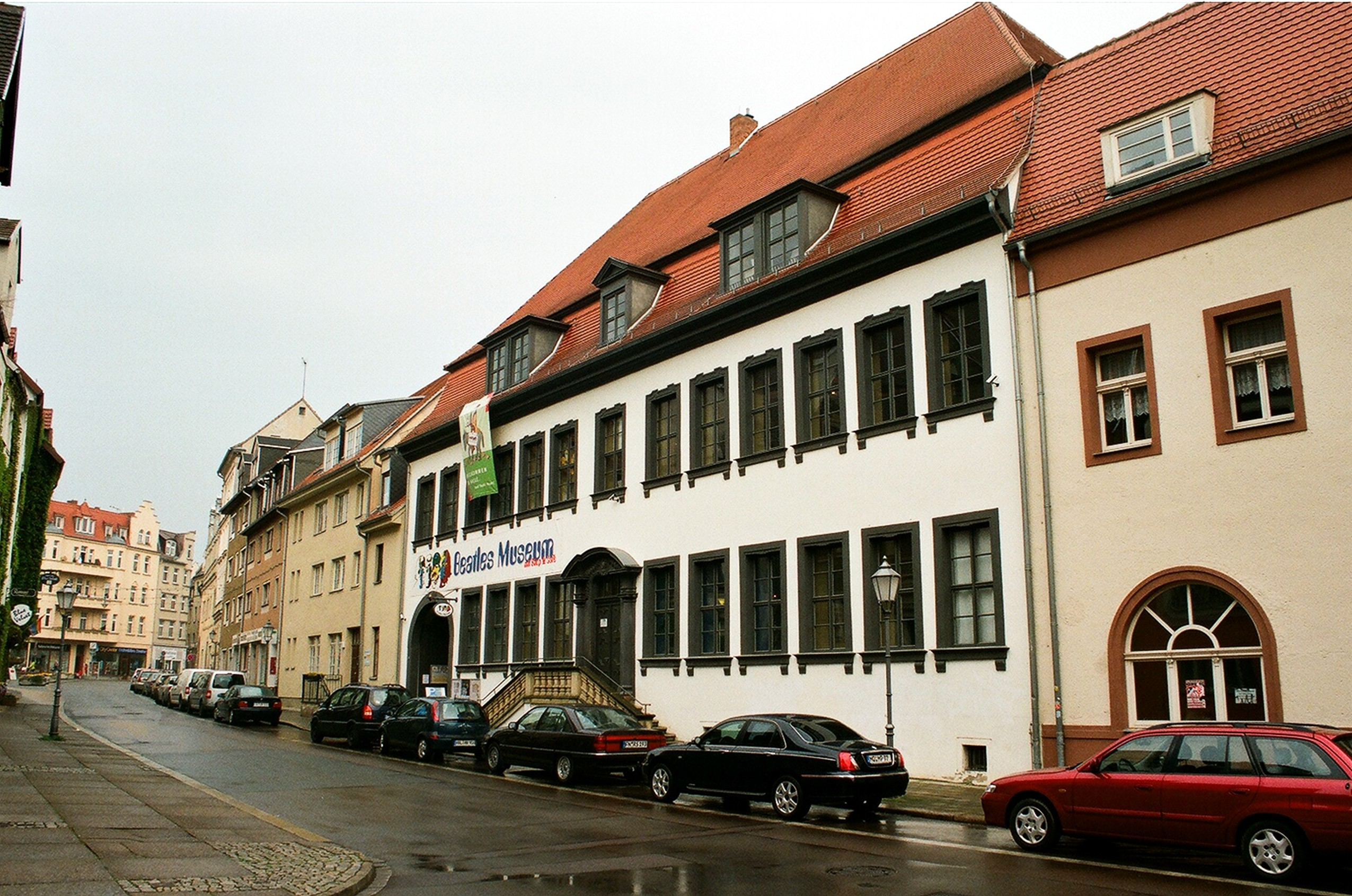 Halle (Saale), the Beatles Museum on the street "Alter Markt"